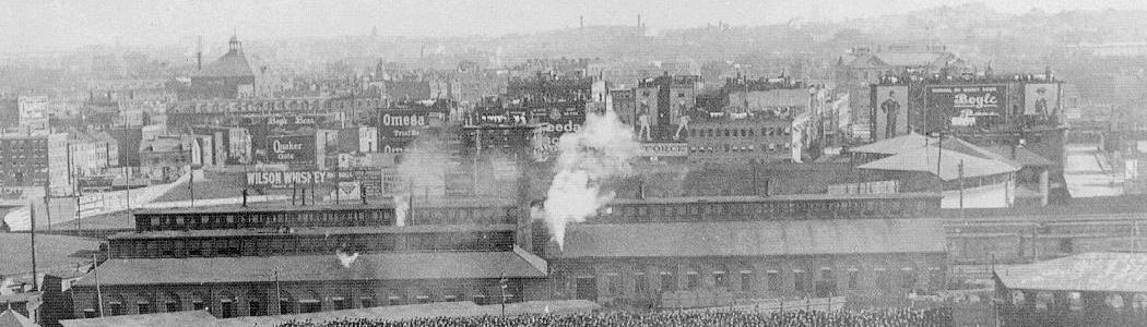 Isolation from the source photo for Image WorldSeries1903-640.jpg, to make the South End Grounds stand out a little better. Re-uploaded, a version showing more detail.